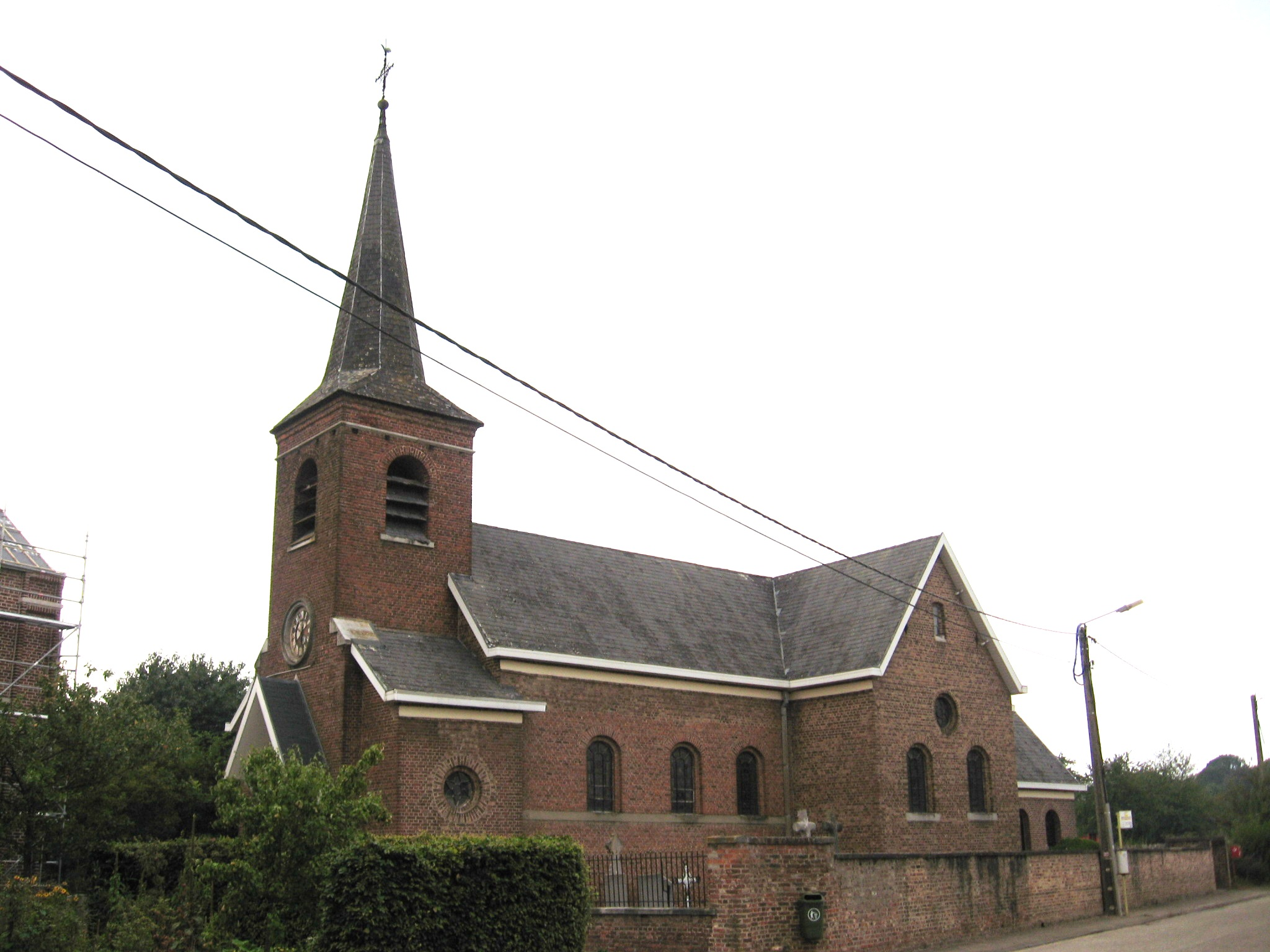 Church of Saint Martin in Mettekoven, Heers, Limburg, Belgium